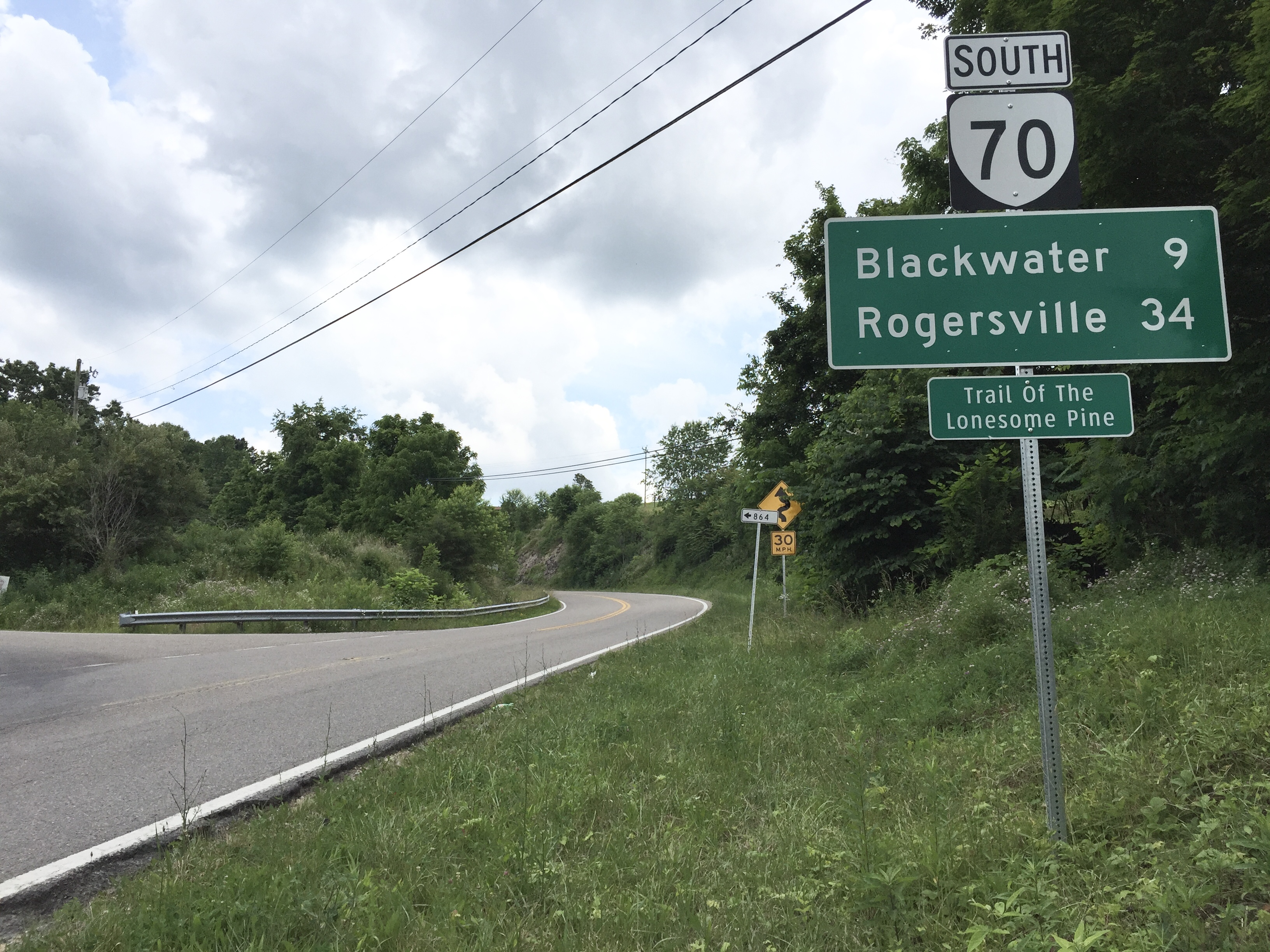 View south along Virginia State Route 70 (Trail of the Lonesome Pine) at U.S. Route 58 (Wilderness Road) in Jonseville, Lee County, Virginia